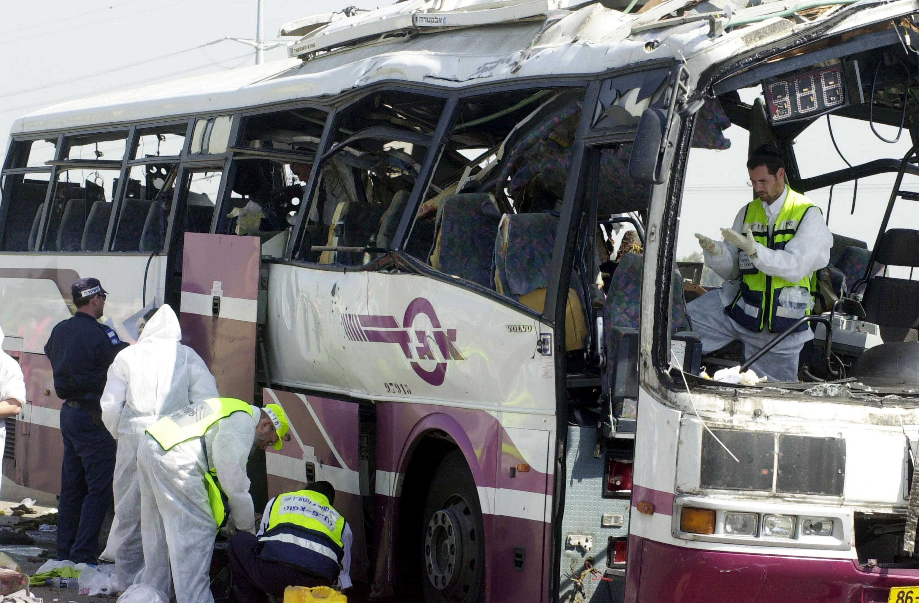 The remains of eged 960 bus, in which a Palestinian suicide bomber exploded, near Yagur junction.